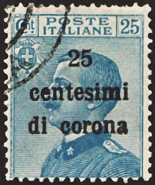 Stamp of Italy for occupated areas of the former Hungary-Austrian monarchy - general issues; 1919; definitive stamp of the so-called issue "Michetti II" from 1908 with overprint; portrait of King Victor Emmanuel III of Italy with view to left after a painting of Francesco Paolo Michetti (in lateral mirroring) with the coat of arms of Savoy in the upper left corner; print type normal standard; upper inscription in colored characters on white background; no water and sun as background; three lines black overprint "25 / centesimi / di corona"; background without water and sun; stamp postmarked Excursus to the background: In Italian occupated territories of the former Austrian-Hungarian monarchy was not introduced the "Lire" as new currency, rather the old Austrian "Krone" (= crown = "corona") was kept as circulation currency. Italian money had no validity (with exception of Dalmatia in later time), so that the usable stamps became an overprint according to the nominal value in the local valid currency. Stamp: Michel: No. 6 (= Italy No. 90 from 1908 with overprint); Yvert & Tellier: No. 6 Color: azure to blue Watermark: Italy No. 1 (crown) Nominal value: 25 Centesimi Postage validity: 1919-1022 (...?) Stamp picture size (printed area): 18.0 x 22.0 mm